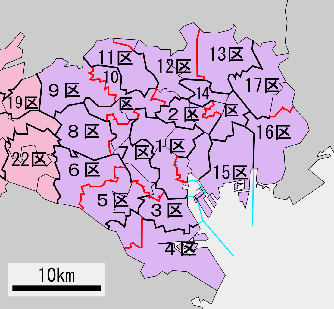 Map of small-sized single-member Japanese House of Representatives districts in Tōkyō Metropolis